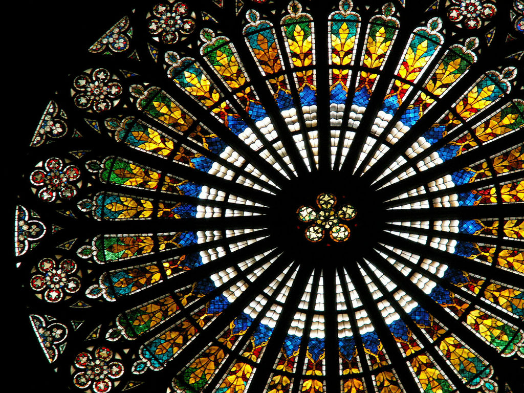 Stained glass in the notre dame cathedral in Strasbourg, France